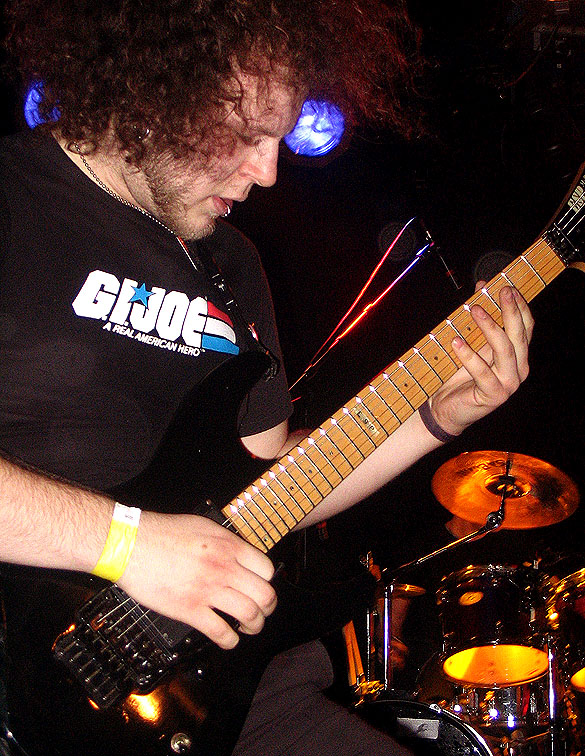 The Black Dahlia Murder playing in Sneek, Netherlands at 01/21/2006.